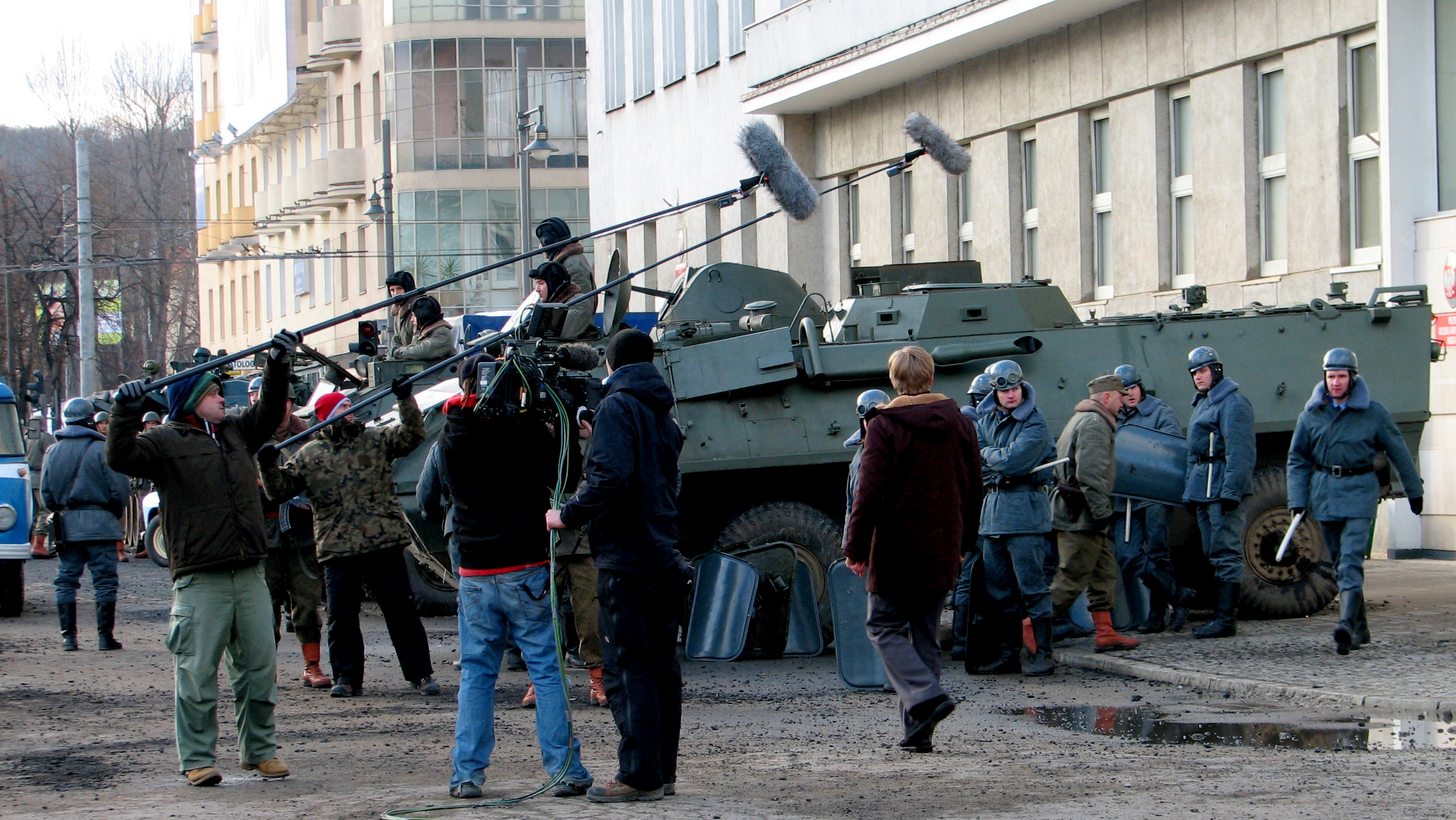 Filming of "Black Thursday" at intersection of ulica Świętojańska and Aleja Józefa Piłsudskiego in Gdynia. People on this picture are actors, extras, and film crew. "Black Thursday" is a film about Polish 1970 protests.